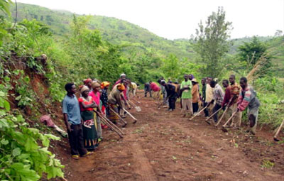 Original caption states, "Roadside communities assist in the rehabilitation of a key road in South Kivu province." Further information on that page includes, "A key road rehabilitation project, carried out between the towns of Lemera and Mulenge in South Kivu province, was officially handed over to the local communities in a ceremony with regional and local authorities and community members. The region is home to the Bufuliru and Banyamulenge tribes, who have experienced hostilities with one another during the war. Roadside communities representing both tribes worked together in an effort to revitalize the region through access to markets and improved connectivity and information flow in the area. They will continue to work collaboratively in the management and maintenance of the road."